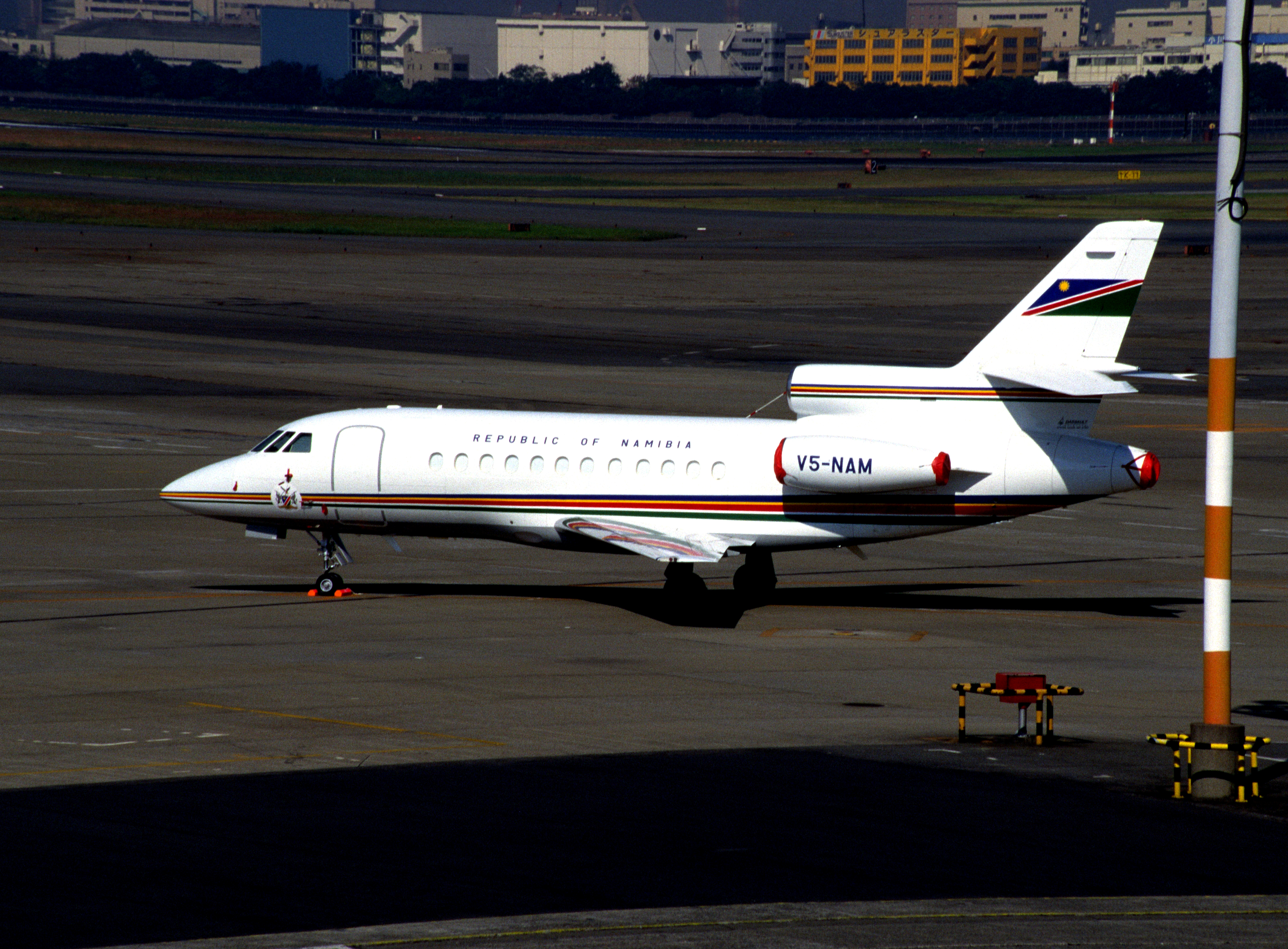 Historic Photo